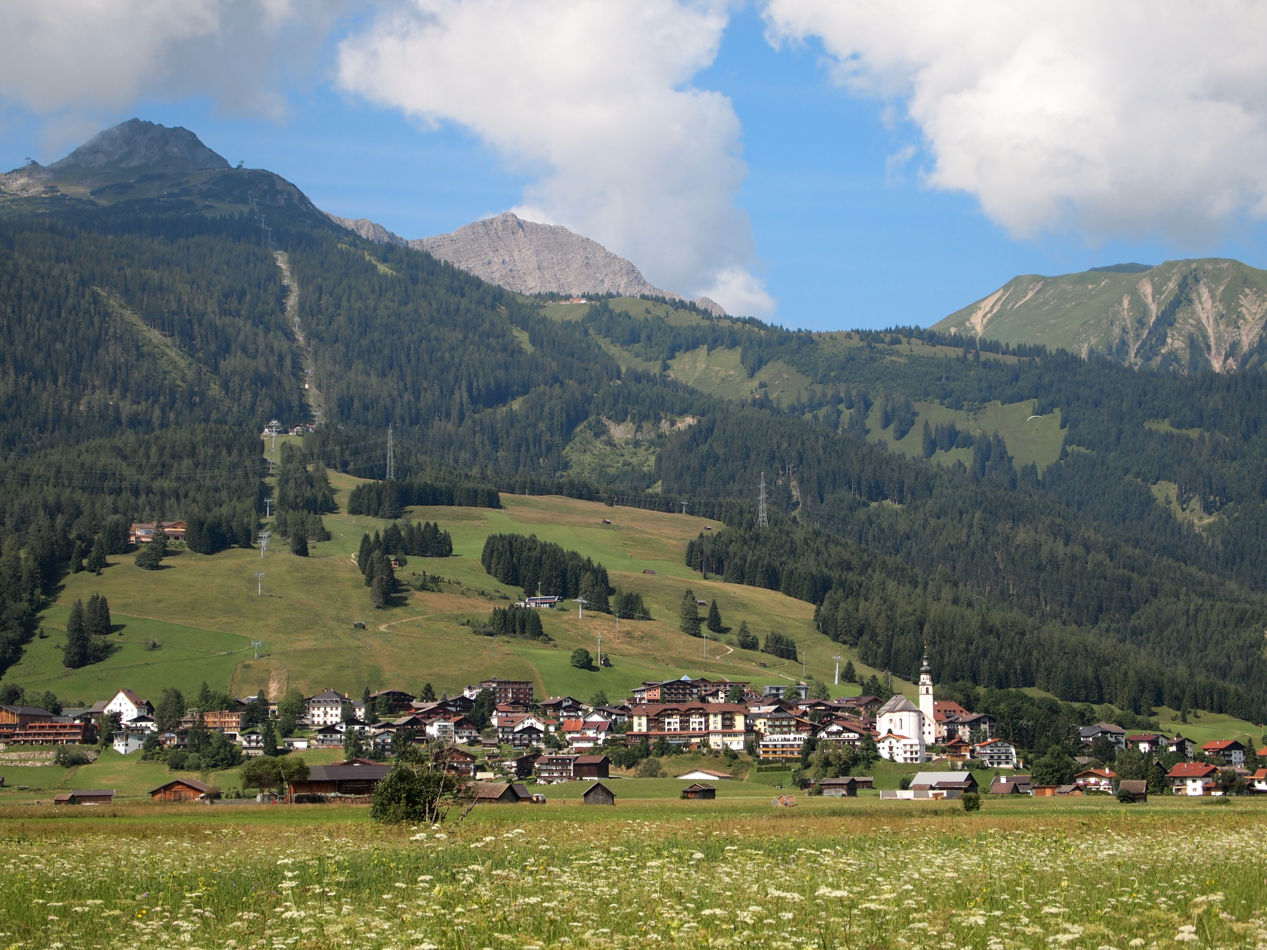 Lermoos and mountain in Tyrol, Austria. This photograph was taken with a Olympus E-PL1.